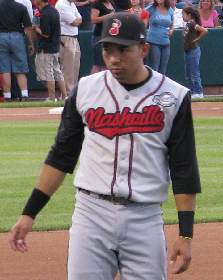 Hernán Iribarren for the minor league Nashville Sounds before a game at Isotopes Park on June 24, 2009